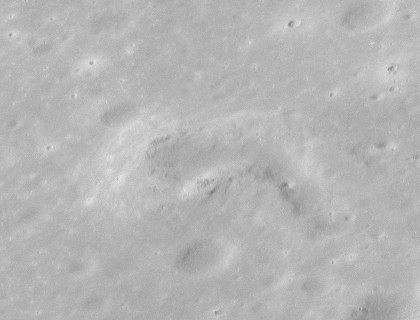 Oblique view of Isis crater, facing south, on the moon. This feature is likely to be a volcanic vent, rather than an impact crater. Taken by Apollo 15 panoramic camera.